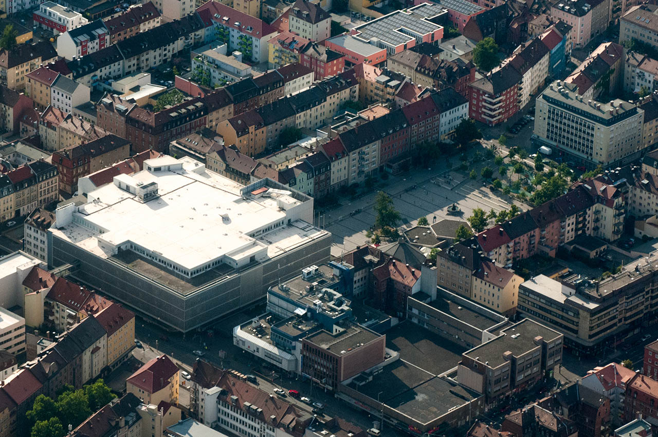 Aerial photography of the Aufsessplatz in Nuremberg, Germany